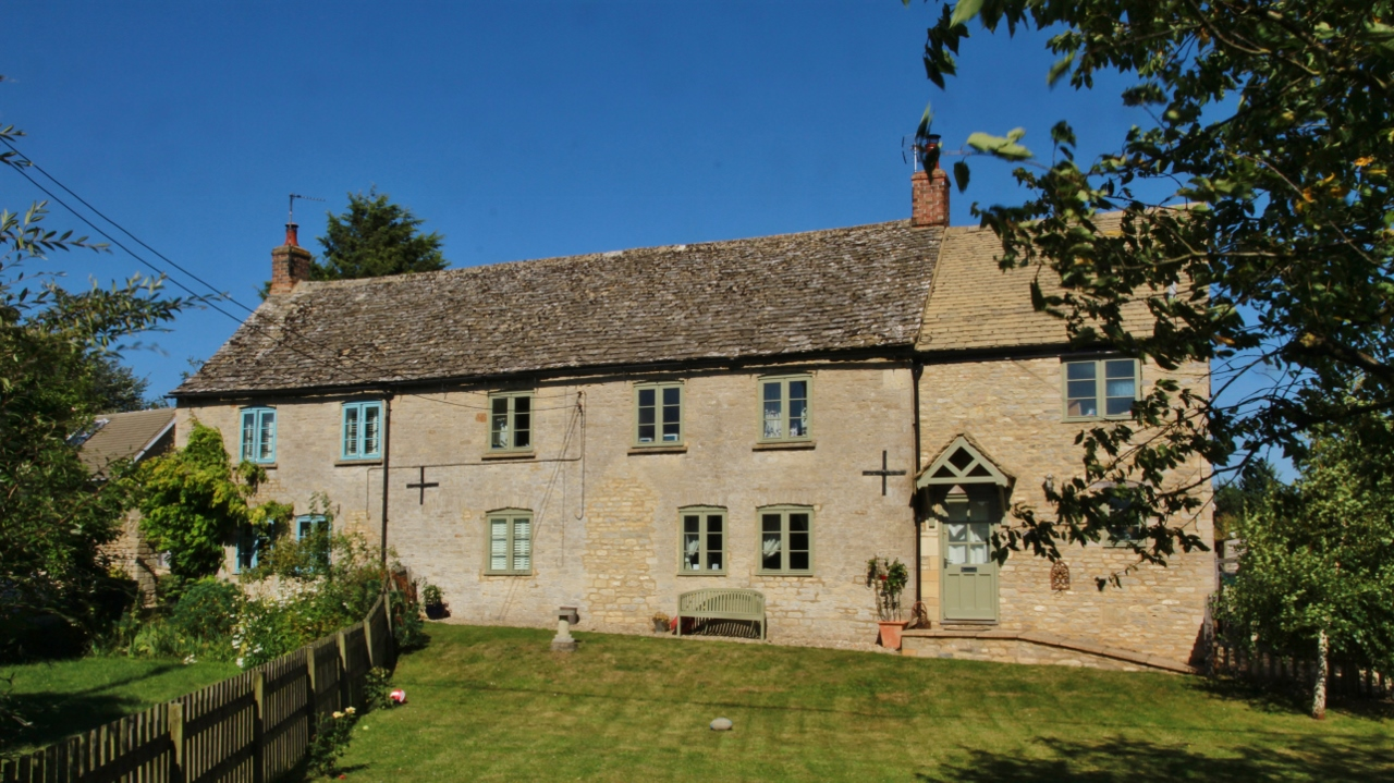 Curbridge Farm Cottages, Curbridge, Oxfordshire, seen from the west